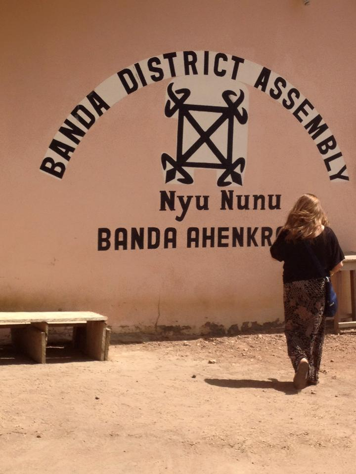 Banda District Assembly block